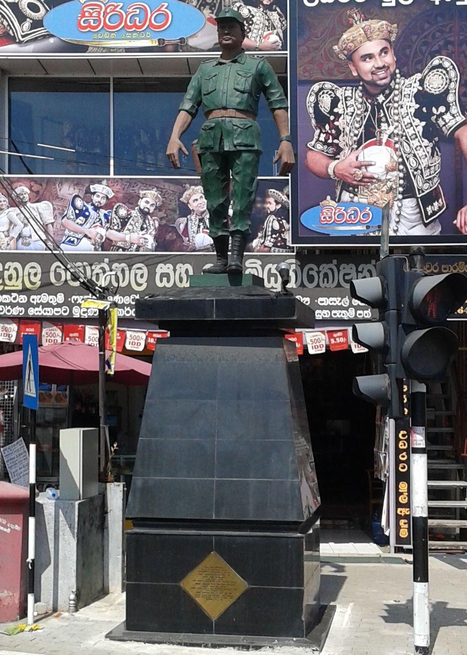 Photograph of Major General Vijaya Wimalaratne Statue at Kiribathgoda.